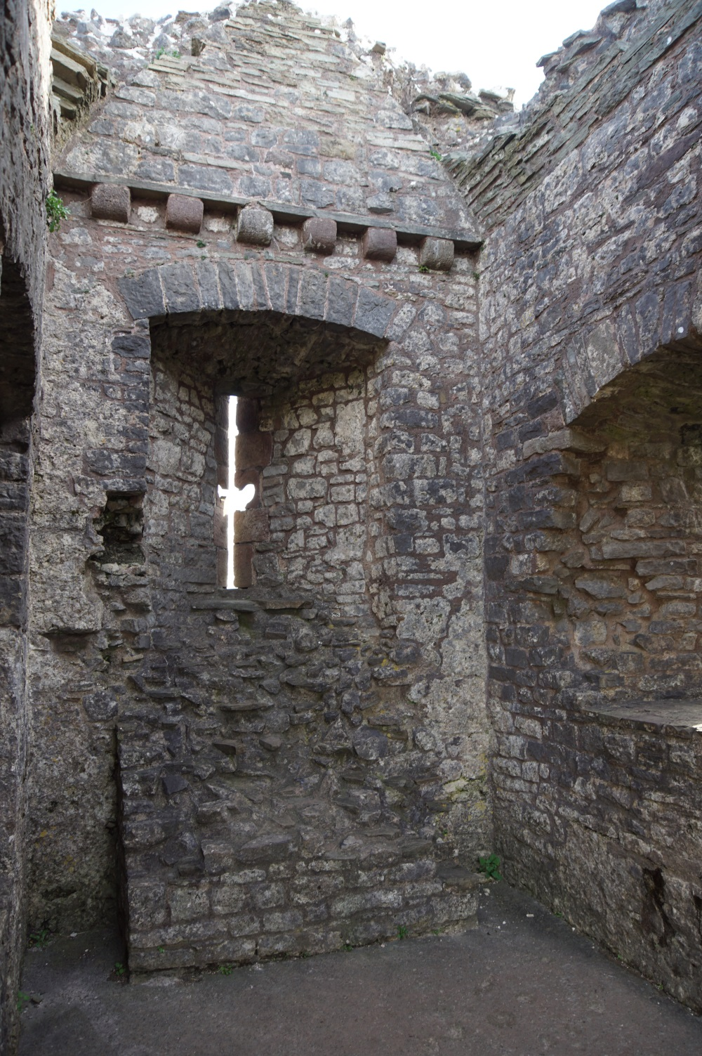 Carreg Cennen Castle, Wales. Chapel with base of the altar.